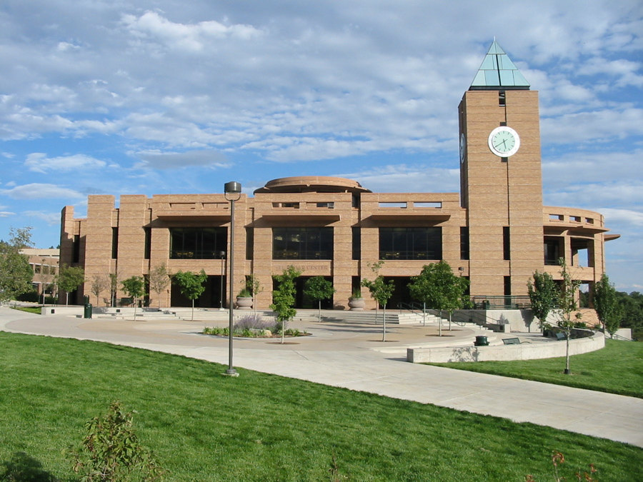 Front view of the UCCS Kraemer Family Library in the El Pomar Center.